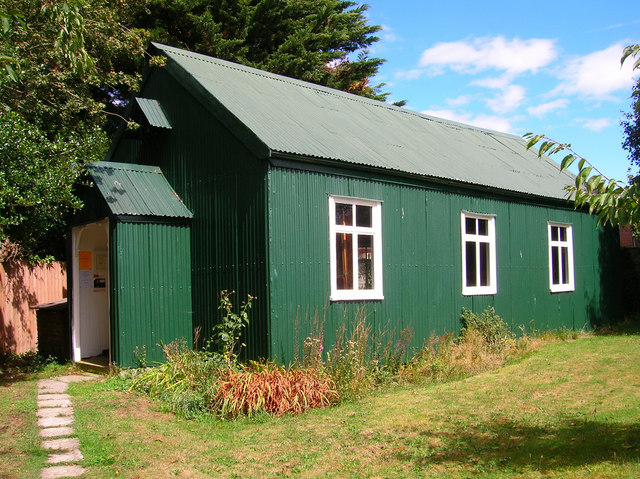 The Mission Church, Woodmancote. Woodmancote is a hamlet in the parish Westbourne, this small corrugated iron church was erected postwar as it isn't on the 1940s map.